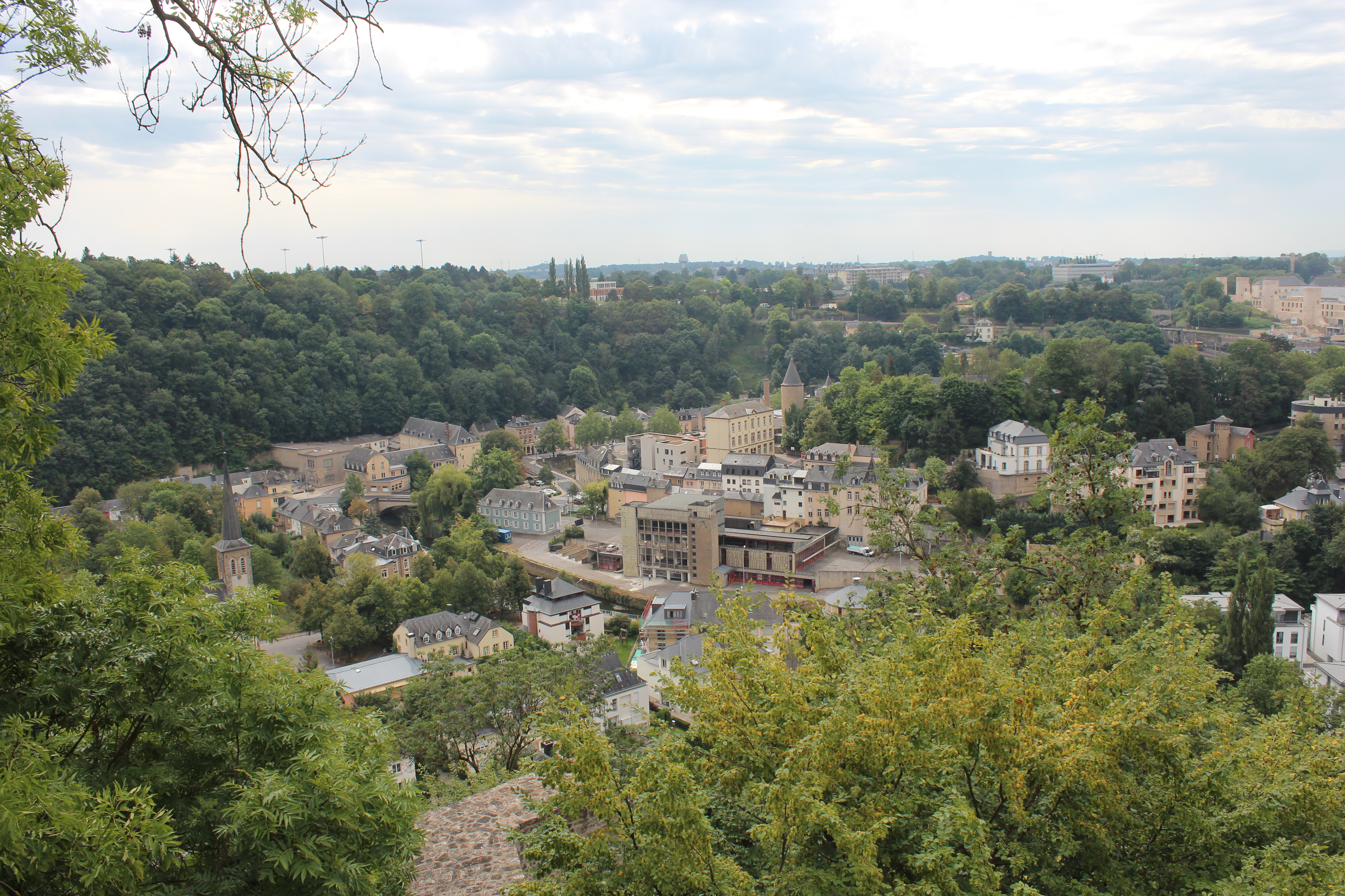 Clausen, Luxembourg City, seen from Dräi Eechelen